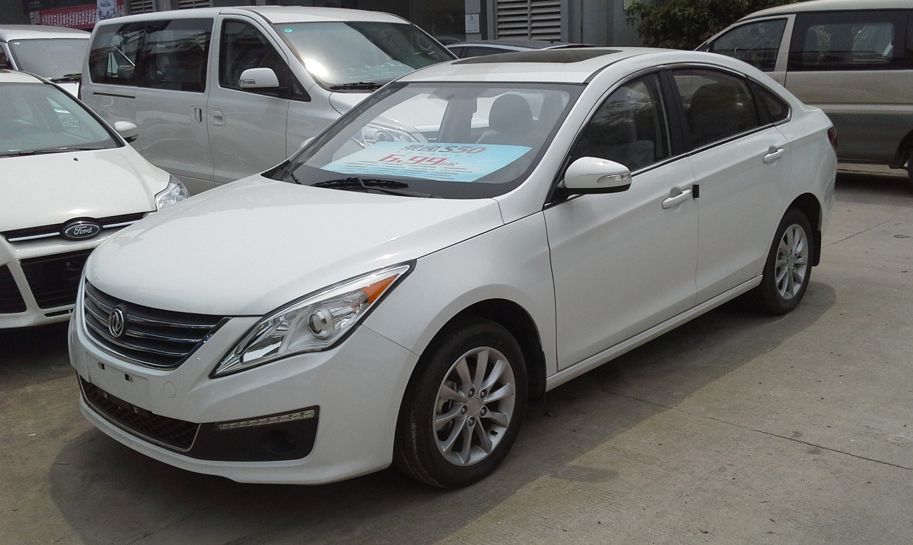 Dongfeng Fengxing Jingyi S50 photographed in Wuhan, Hubei province, China.